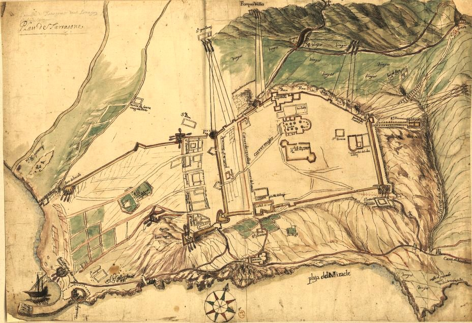 Map of Tarragona (Catalonia) around 1643